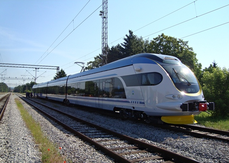 A suburban train of the city of Zagreb built by Končar